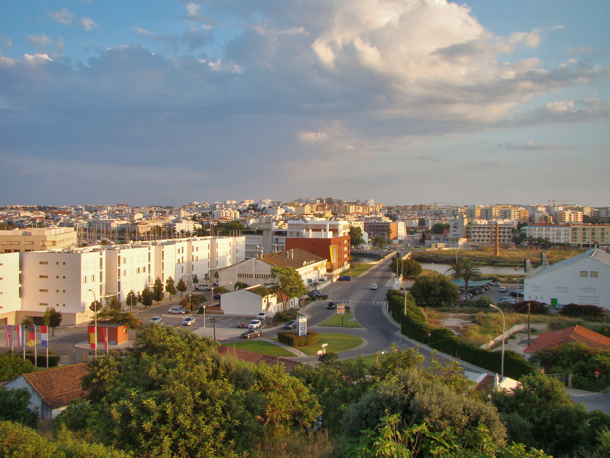 Parcial view of Lagos